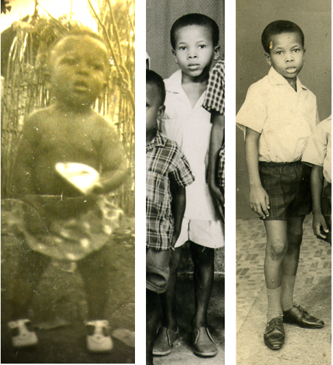 George Alula early age from 1958-64-68, Basoko (1958, left), 1964 after war and 1968 in Kinshasa